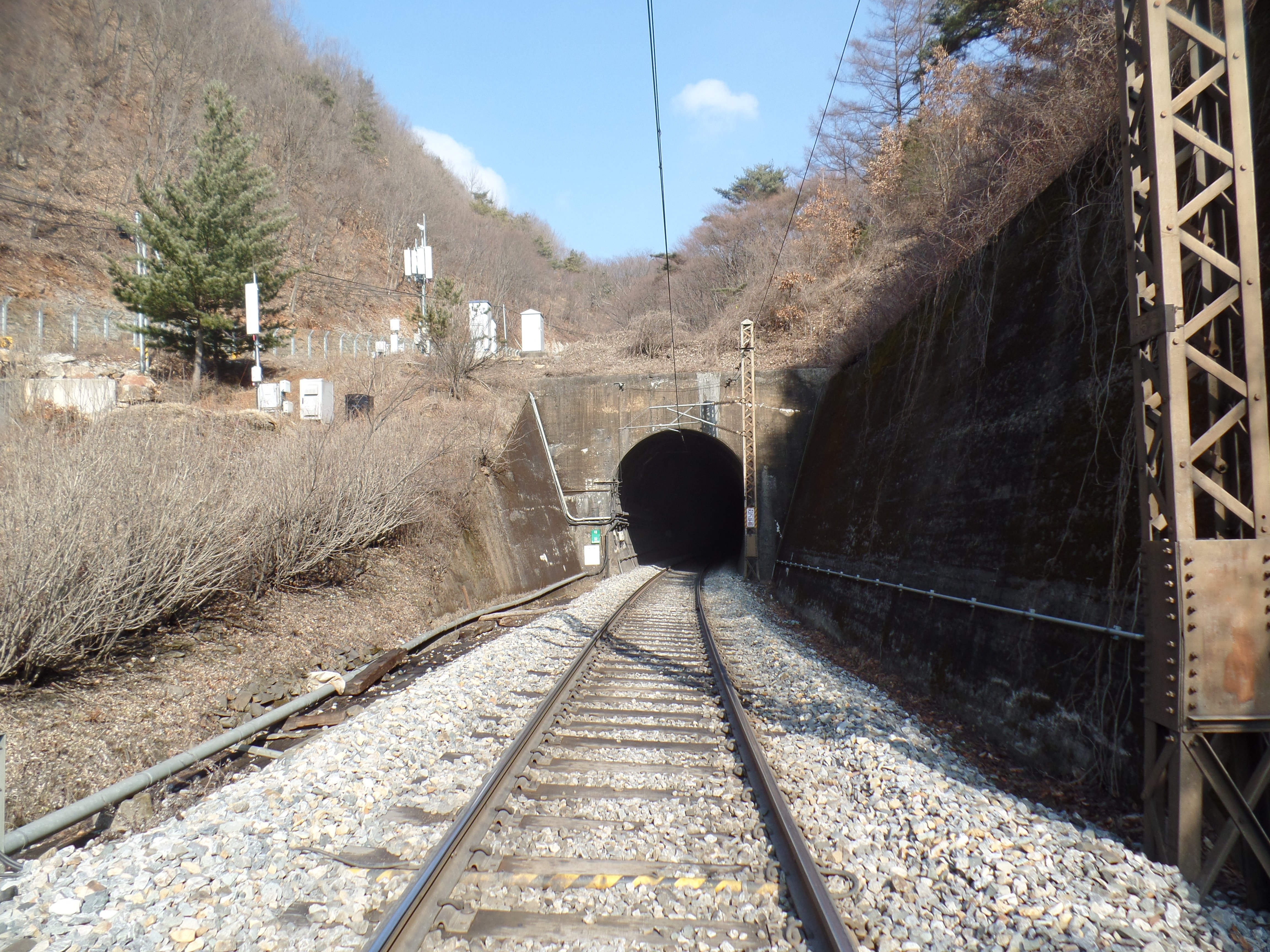 Juangang Line Daegang Tunnel Northbound(Bound for Danseong Station, Cheongnyangni Station)